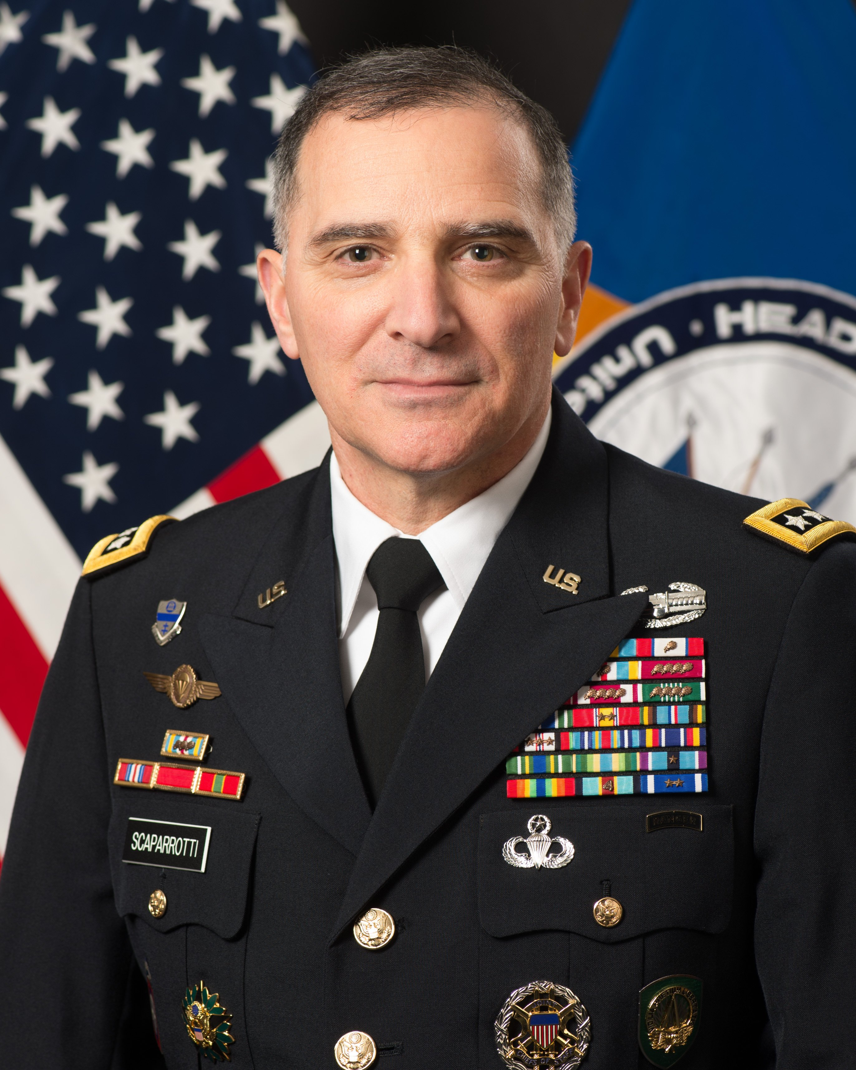 Scaparrotti EUCOM